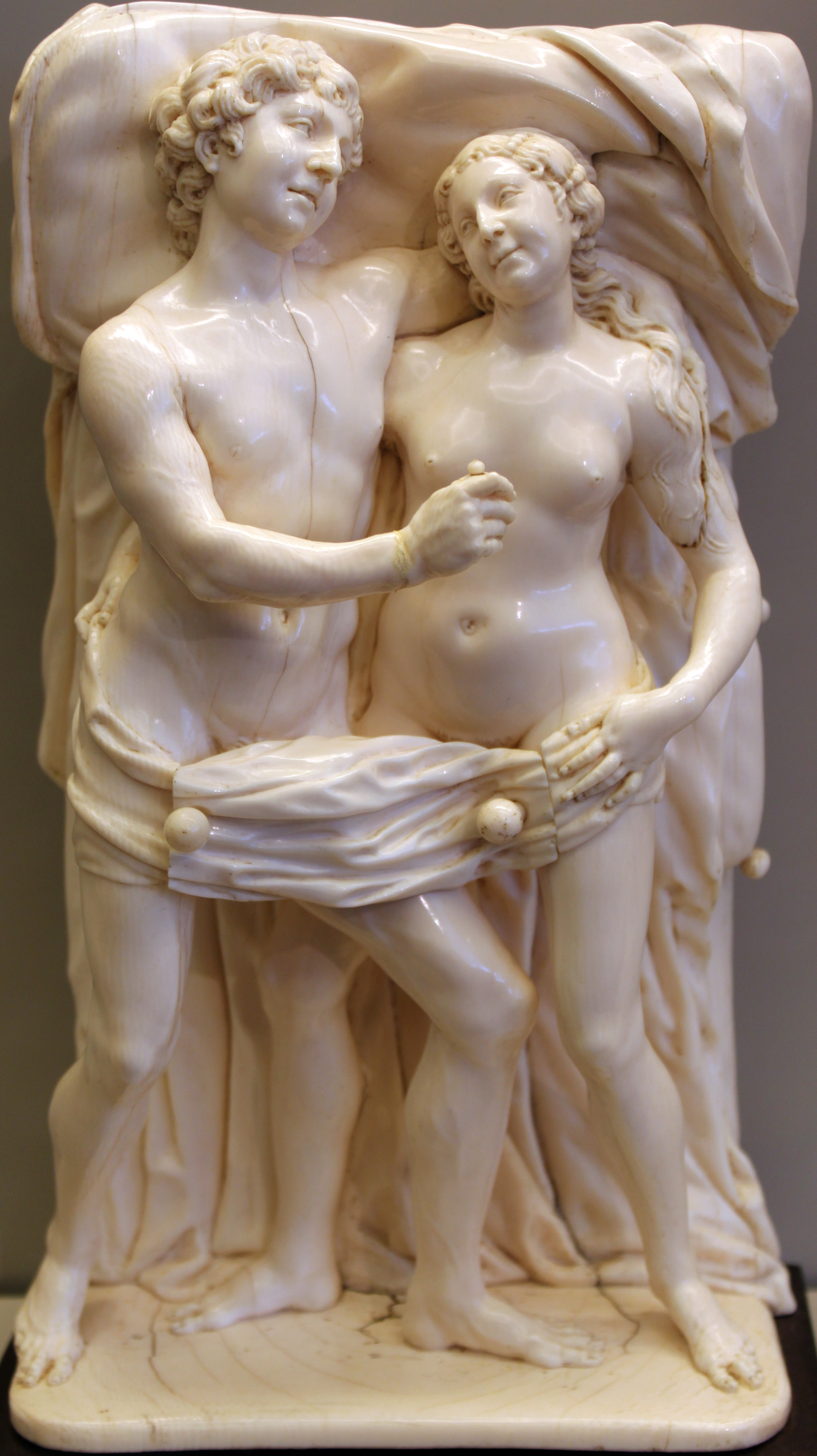 Zacharias Hegewald (1596–1639) DescriptionGerman sculptorDate of birth/death 1596 30 March 1639 Location of birth/death Chemnitz DresdenAuthority control : Q139486 VIAF: 305191147 ISNI: 0000 0004 1821 9502 ULAN: 500319326 GND: 1067083642 creator QS:P170,Q139486 Adam and Eva as Lovers, 1530, Bodemuseum Berlin, Inv. 3120